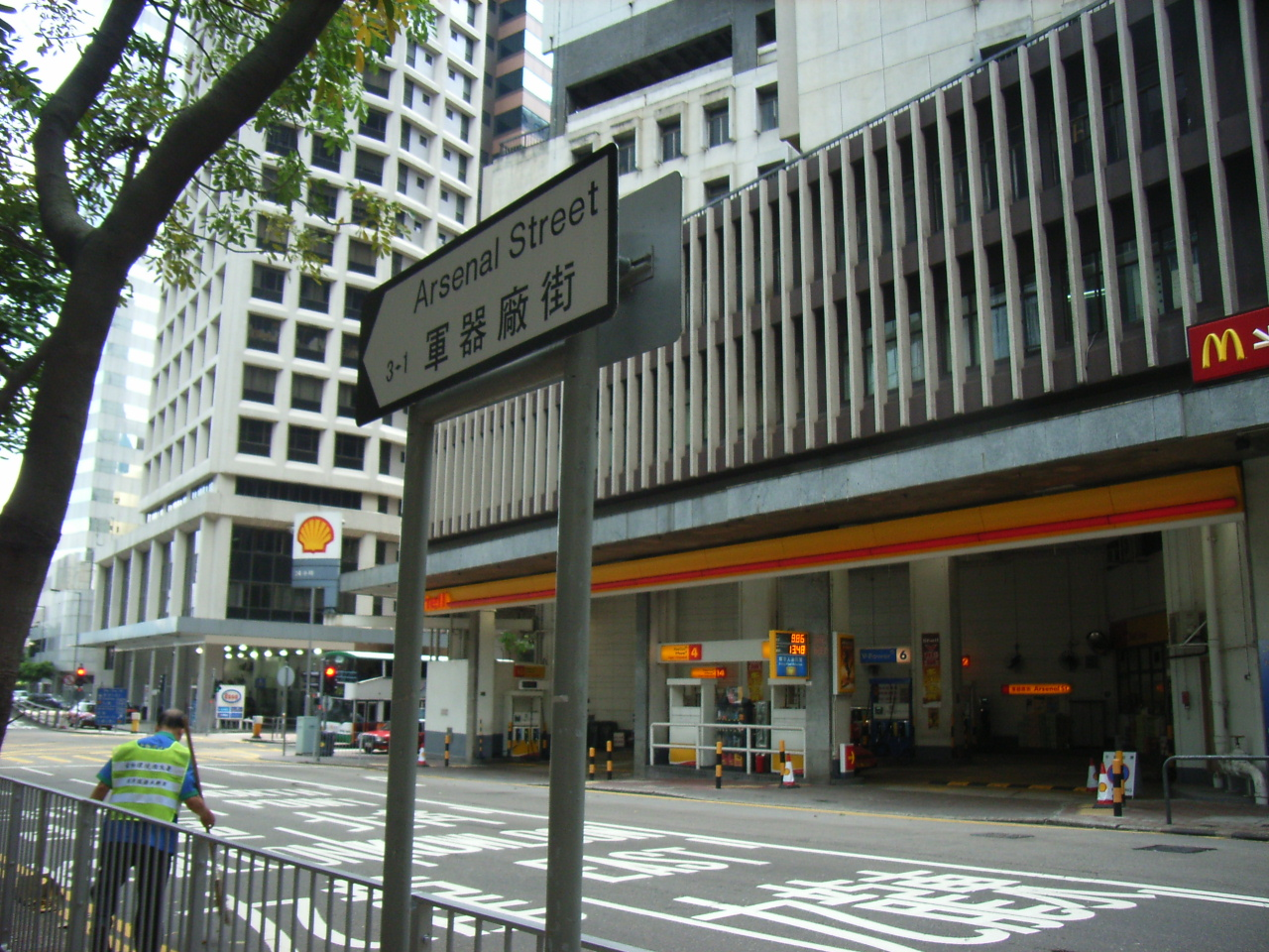 Hong Kong Island Regional Headquarters, 軍器廠街 Arsenal Street, Wan Chai, Hong Kong photo by QWB656